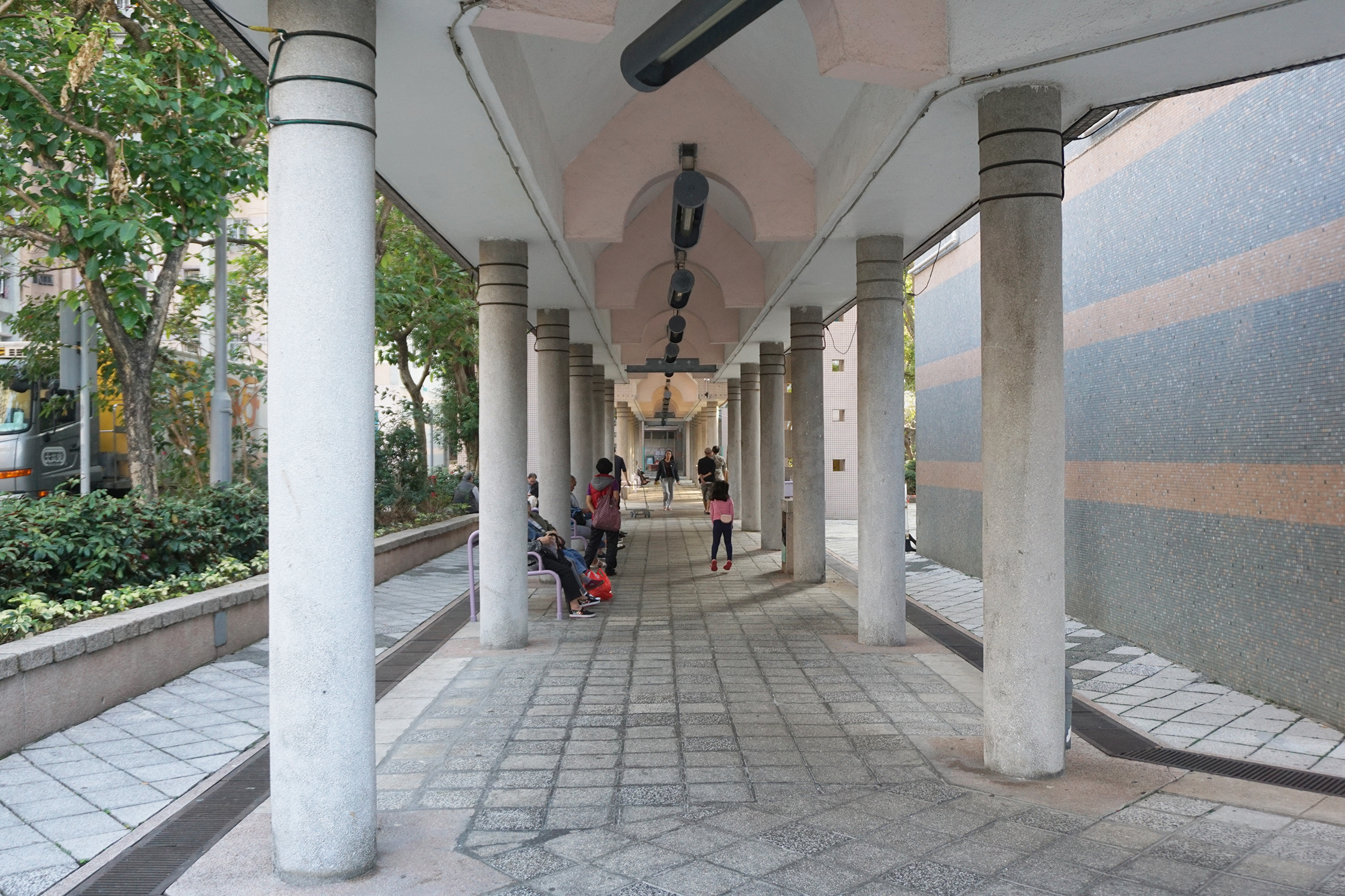 Kam Lung Court in Wu Kai Sha, Hong Kong.